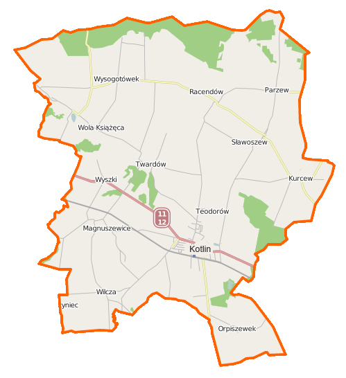 Map of Gmina Kotlin, Poland This map of Kotlin (gmina) was created from OpenStreetMap project data, collected by the community. This map may be incomplete, and may contain errors. Don't rely solely on it for navigation. Border coordinates51.992917.5527←↕→17.724051.8776